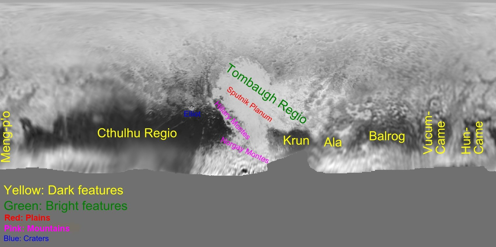 MAP OF PLUTO - JULY 16, 2015 ORIGINAL IMAGE CAPTION: Map of Pluto, with (informal) names for some of the largest surface features.